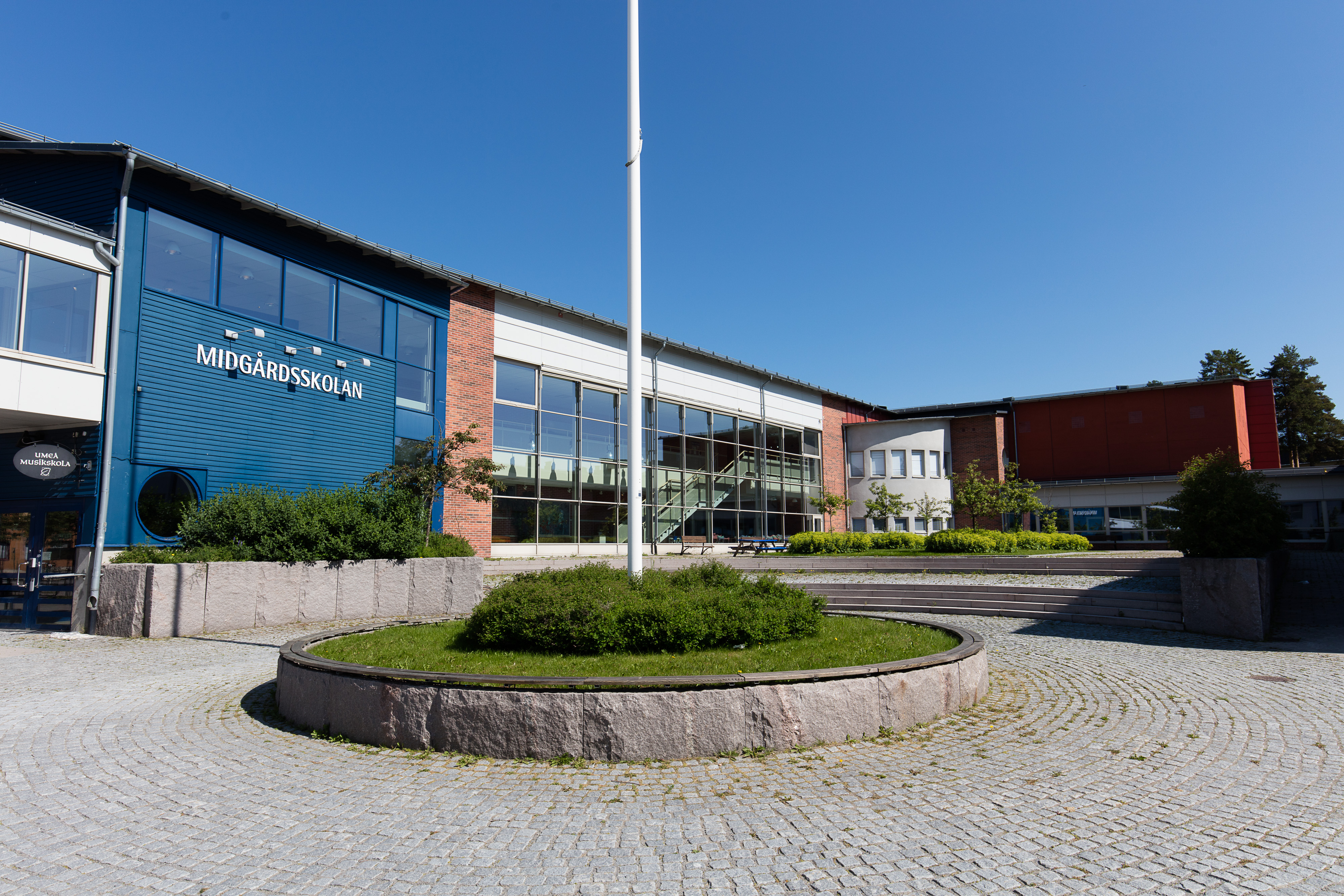 Midgårdsskolan is a public gymnasium at Umestan, Umeå, Sweden